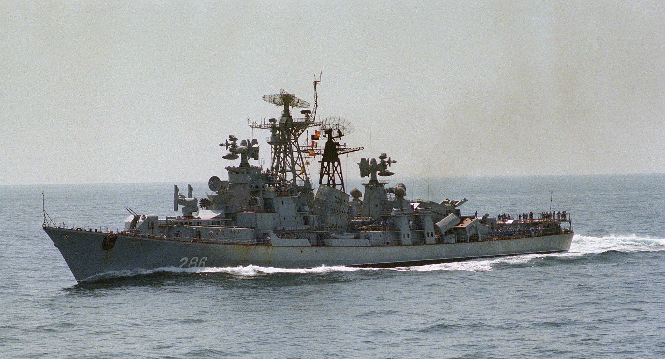 A port bow view of the Soviet Kashin class destroyer Sderzhannyy passing near the aircraft carrier USS CORAL SEA (CV 43) during her 1979-1980 deployment.